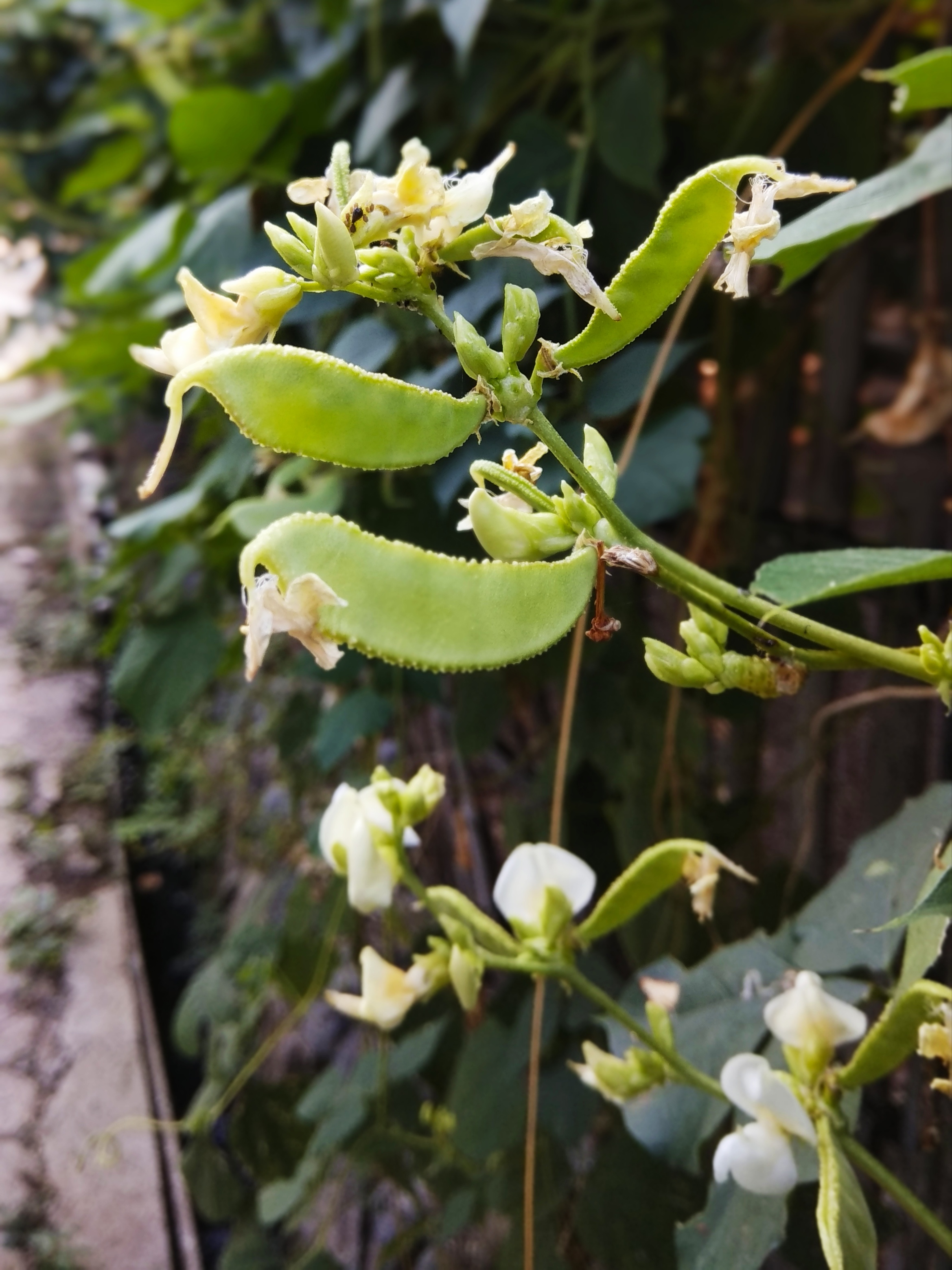 Lablab bean